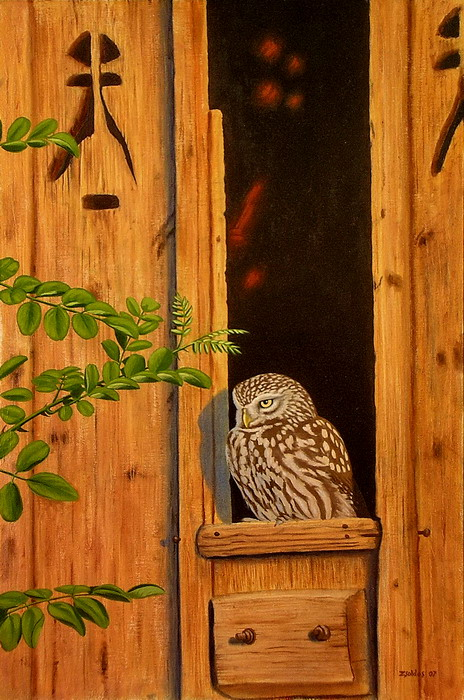 The Little Owl (Athene noctua) is a bird which is resident in much of the temperate and warmer parts of Europe, Asia east to Korea, and north Africa.